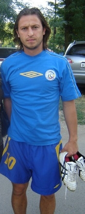 Russian footballer Maxim Buznikin on training practice in FC Rostov.